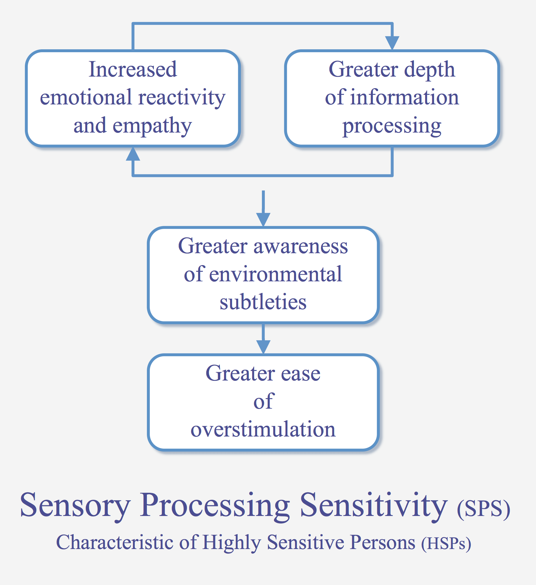 Block diagram illustrating characteristics of the temperamental trait, Sensory processing sensitivity characterizing Highly Sensitive Persons. This block diagram is based on the "Graphic abstract" included in some published renderings of the source article (example: and and by text in the Introduction section at p. 288. Uploader created this diagram with Microsoft Powerpoint. "Date work was created or first published" (below) was chosen based on the first online publication of the article.